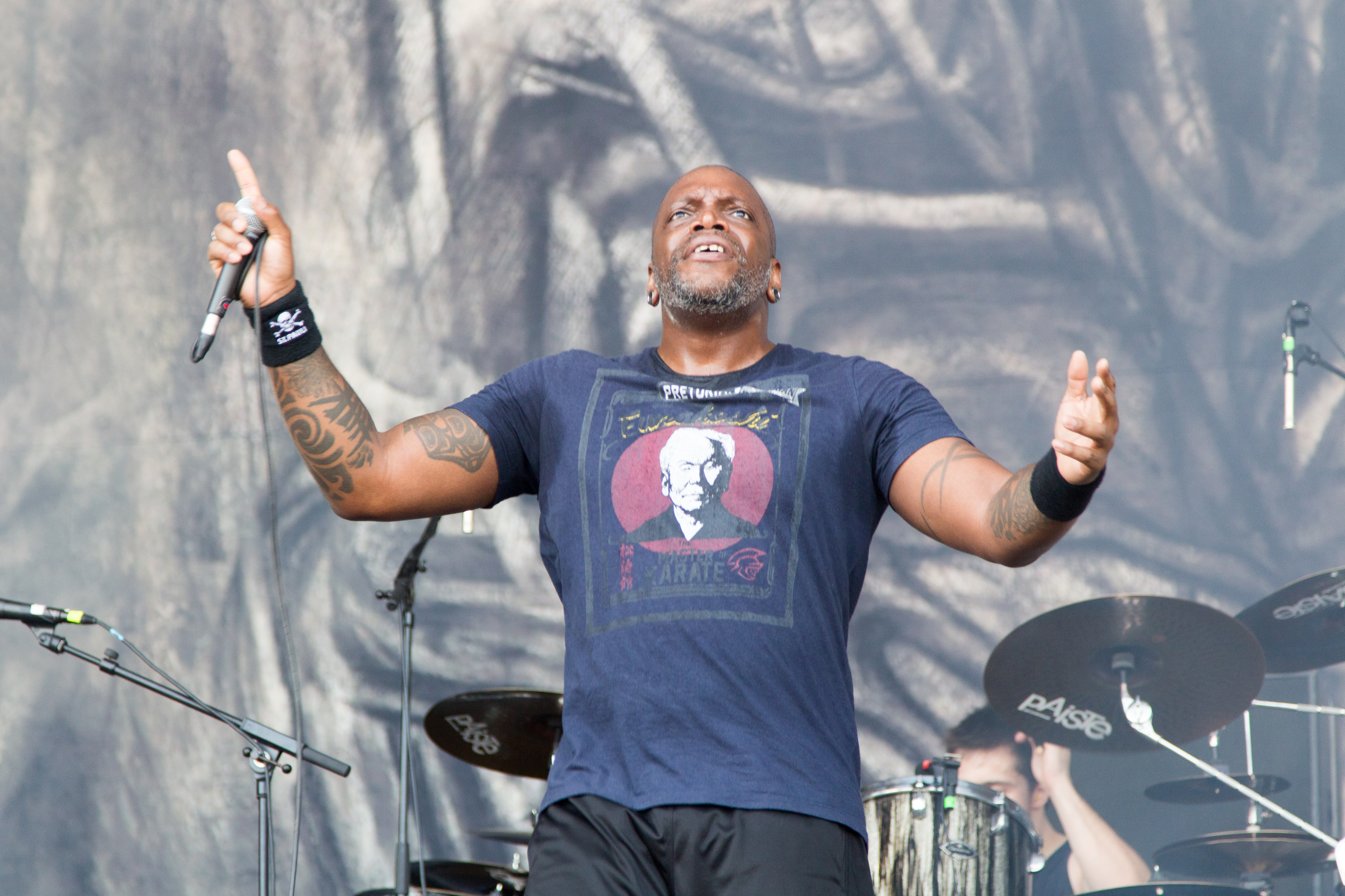 Derrick Leon Green from Sepultura at Nova Rock 2014